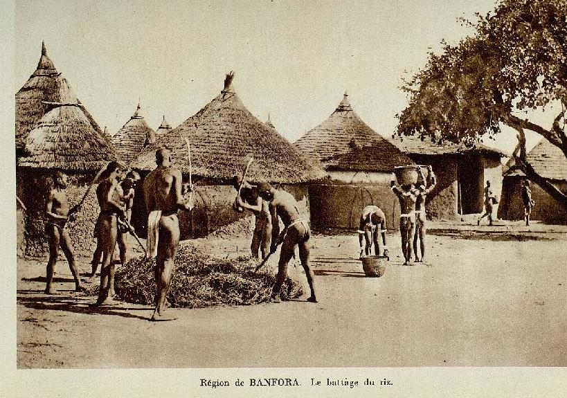 Upper Volta. Banfora Region. Threshing rice